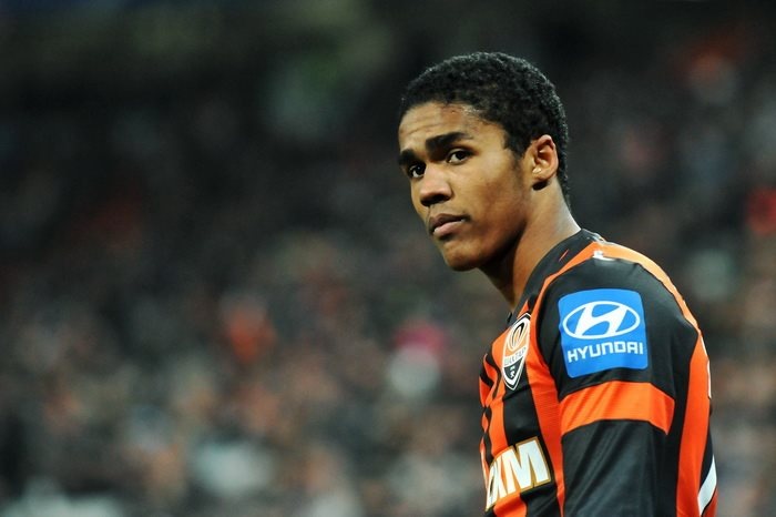 Douglas Costa in 2013